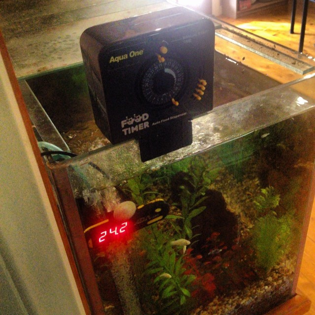 Got a fishy food feeder for when I go on holidays #fish #aquarium #evalife #fishfeeder #holidays #lovemyfishies